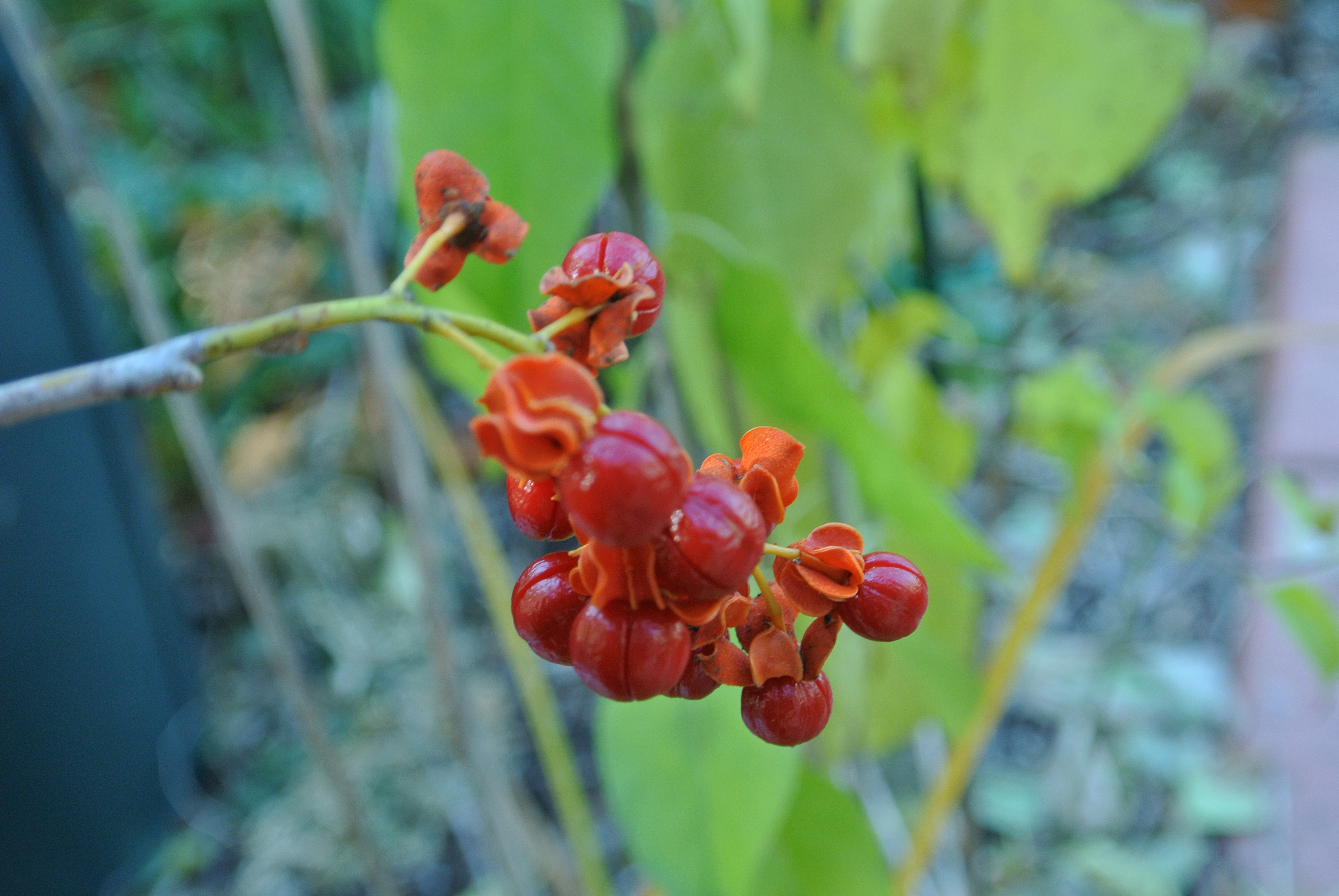 Celastrus scandens (American bittersweet) in the garden of botanist Robert R. Kowal, Madison, Wisconsin